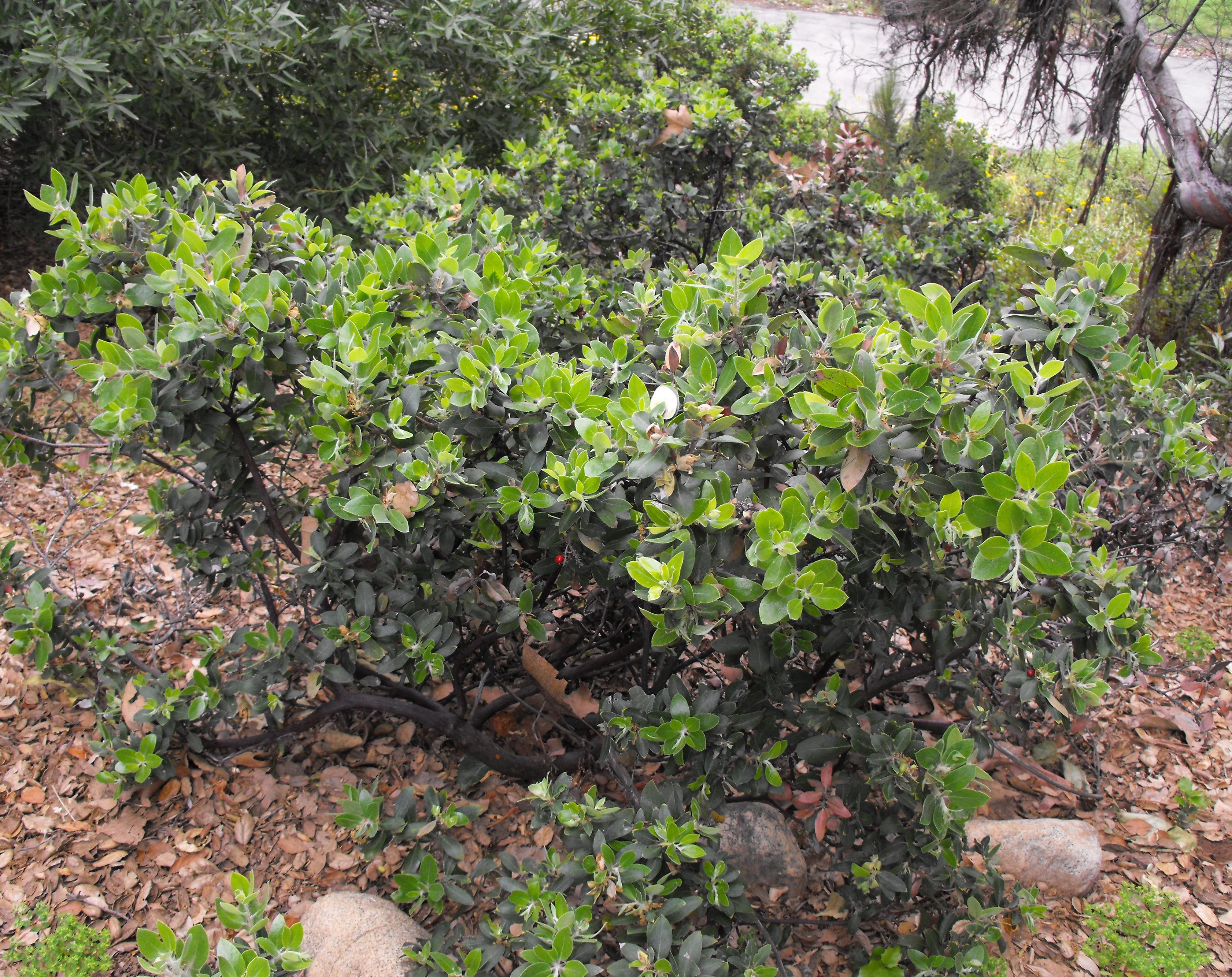 Arctostaphylos columbiana at Rancho Santa Ana Botanic Gardens in Claremont, California, USA. Identified by sign.